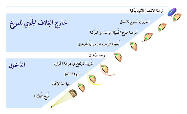 Mars Science Laboratory (MSL) landing diagram for outside the Martian atmosphere and for entry.